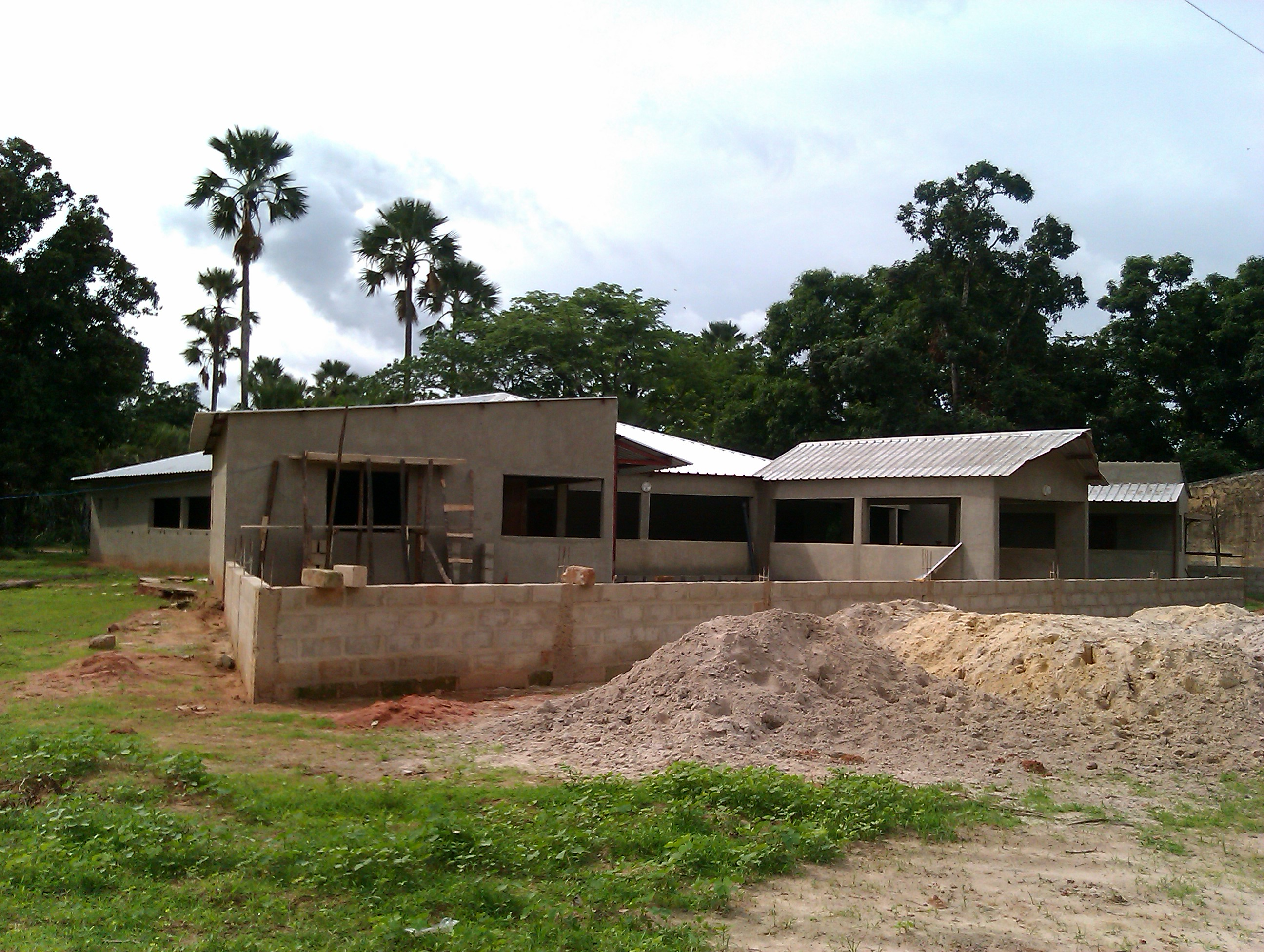 Foyer des Jeunes in Bagaya (Senegal)